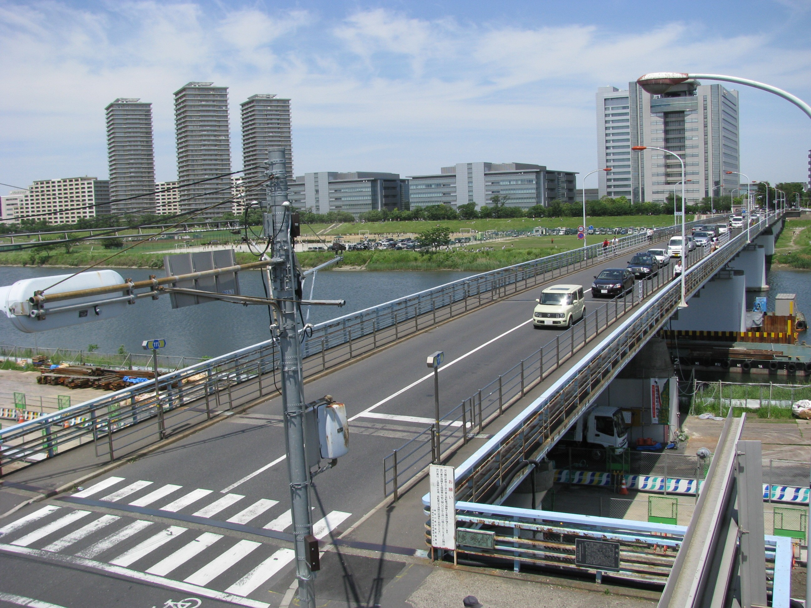 The Gas-bashi. This located is Kami-Hirama in Nakahara-ku, Kanagawa Prefecture, Japan.